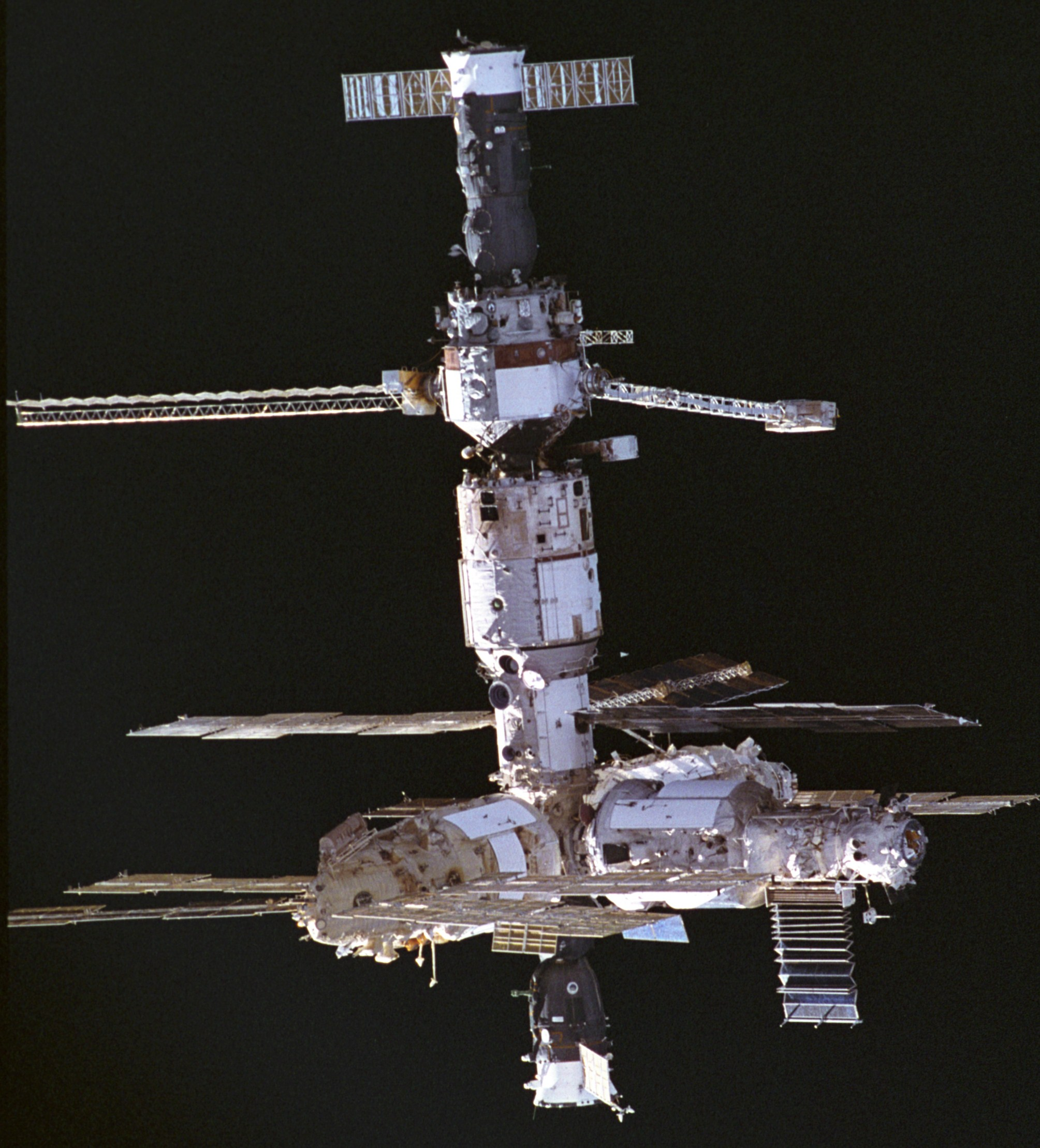 This image of the Russian space station Mir was photographed by a crewmember of the STS-74 mission when the Space Shuttle Atlantis was approaching Mir for docking. STS-74 was the second Shuttle-Mir docking mission, during which the Docking Module was delivered and installed, making it possible for Space Shuttles to dock more easily with the station. Atlantis delivered water, supplies, and equipment, including two new solar arrays to upgrade Mir, and returned to Earth with experiment samples, equipment for repair and analysis, and products manufactured on the station. STS-74 was launched on 12 November 1995, and landed at the Kennedy Space Centre on 20 November 1995.